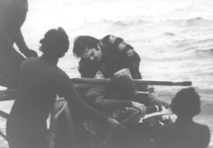 Jim Harrington climbing the pier while the camera rolls. Man to the right, back to camera, is Steven Spielberg.